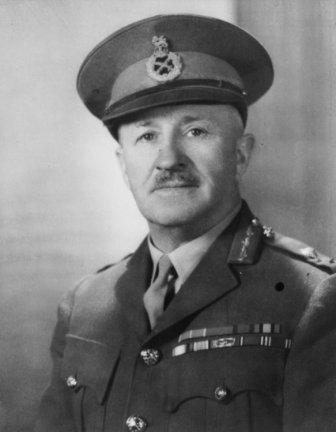 Portrait of Major General John Duigan, CGS of New Zealand Military Forces 1937-1941. Photographer unidentified. John Duigan. New Zealand. Department of Internal Affairs. War History Branch :Photographs relating to World War 1914-1918, World War 1939-1945, occupation of Japan, Korean War, and Malayan Emergency. Ref: 1/1-013284-F. Alexander Turnbull Library, Wellington, New Zealand.